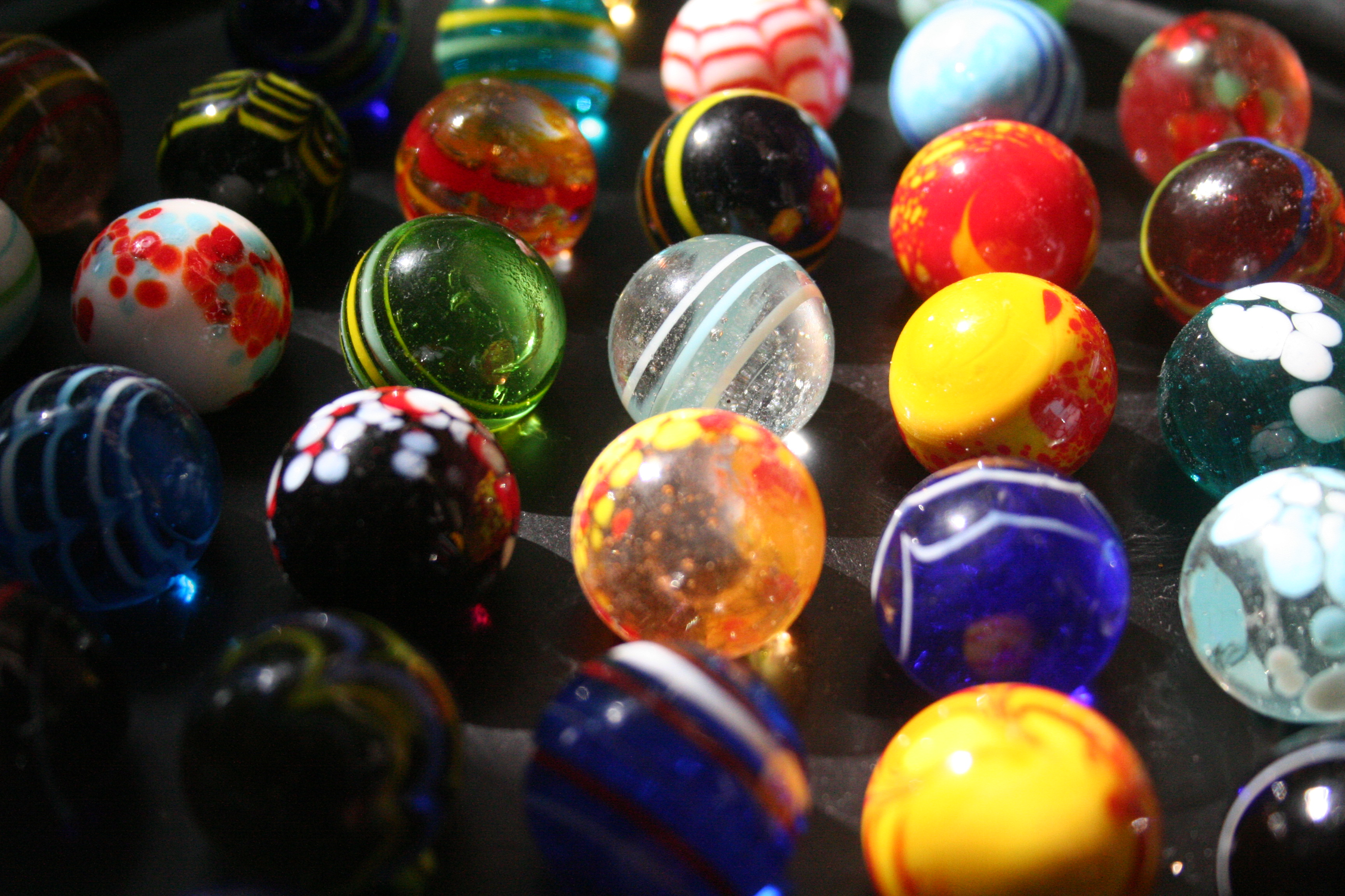 Hand-made marbles from West Africa